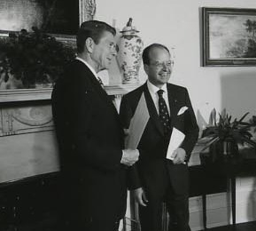 Ronald Reagan poses with Italian Ambassador Rinaldo Petrignani in Oval Office